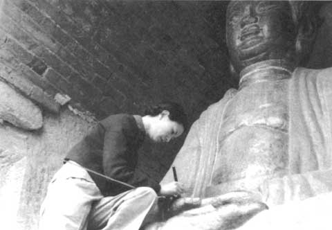 Lin Huiyin (1904-1955)